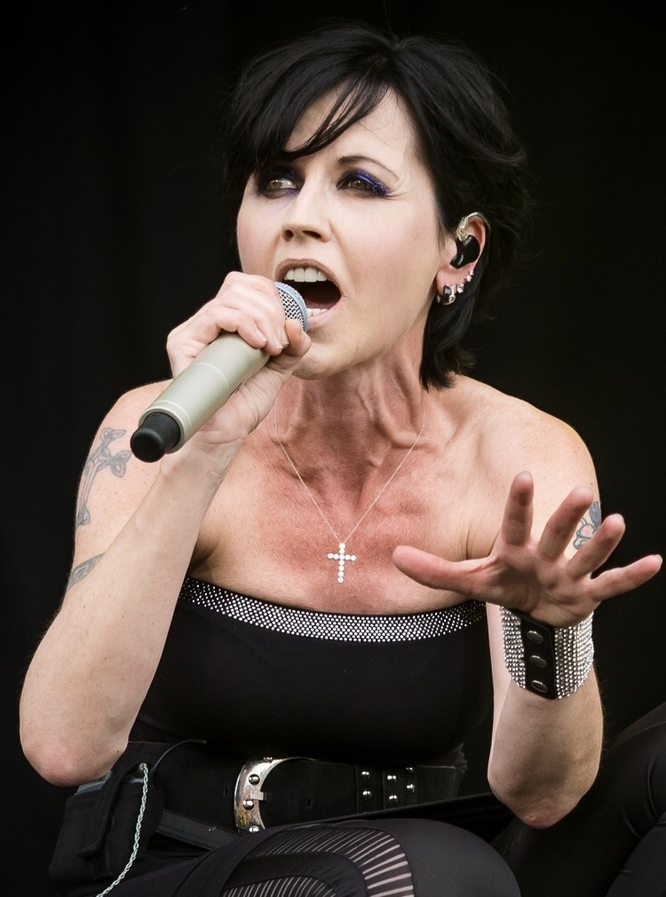 The Cranberries - Weert, Netherlands - 9 July 2016